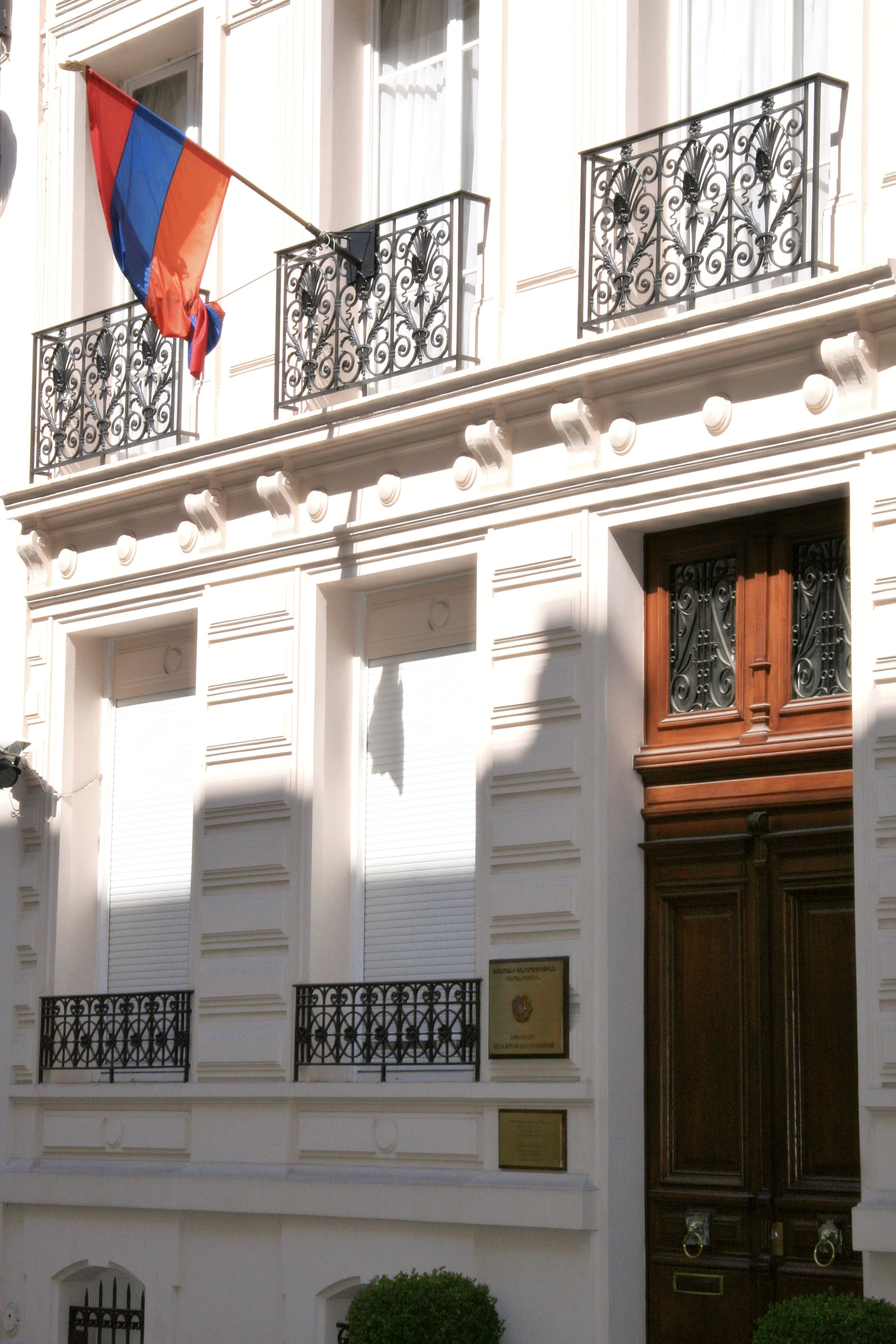 Armenian embassy in Paris, France.